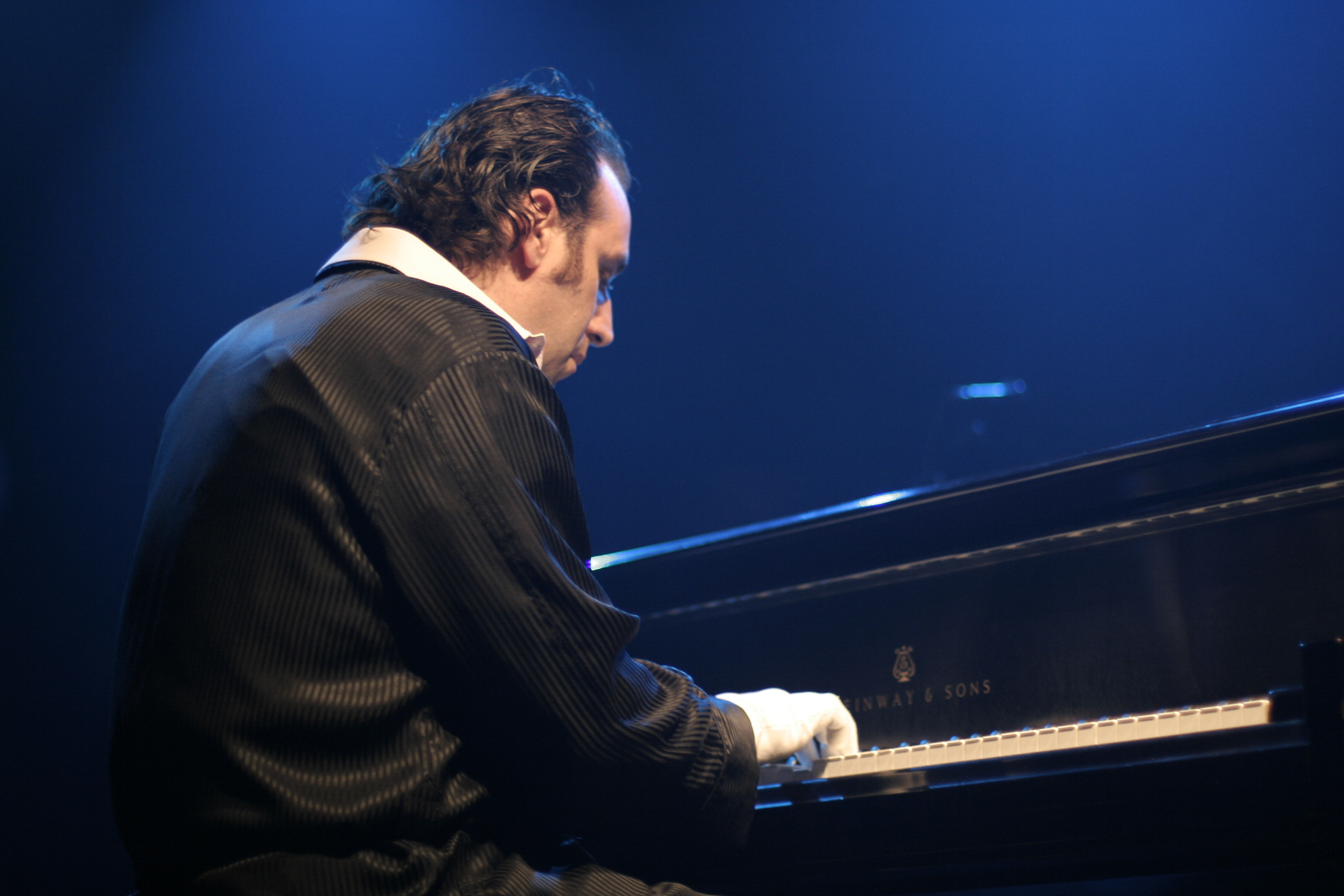 Gonzales playing at the Mod Club in Toronto, Canada. The instrument is a grand piano by Steinway & Sons.